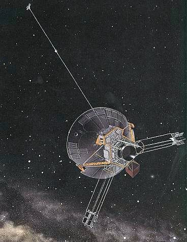 Pioneer 10 and Pioneer 11